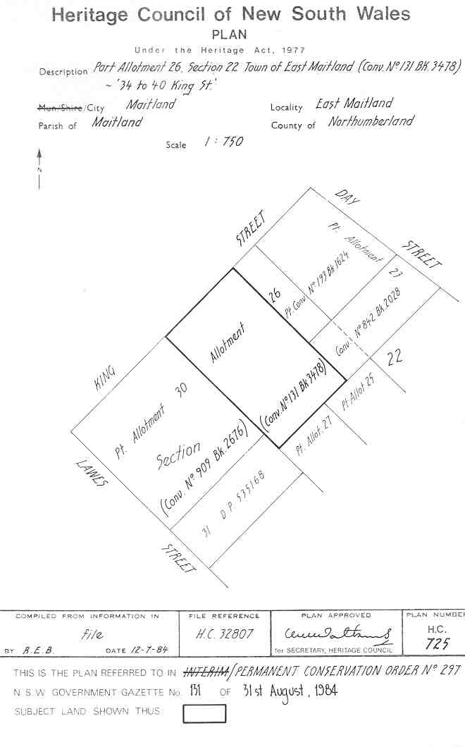 34-40 King Street, East Maitland: PCO Plan Number 297